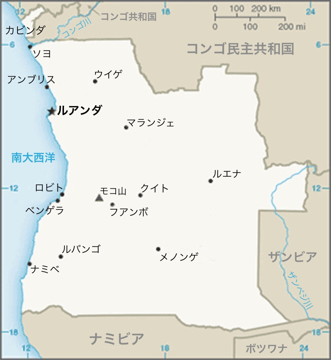 Map of Angola in Japanese (from CIA World Factbook)